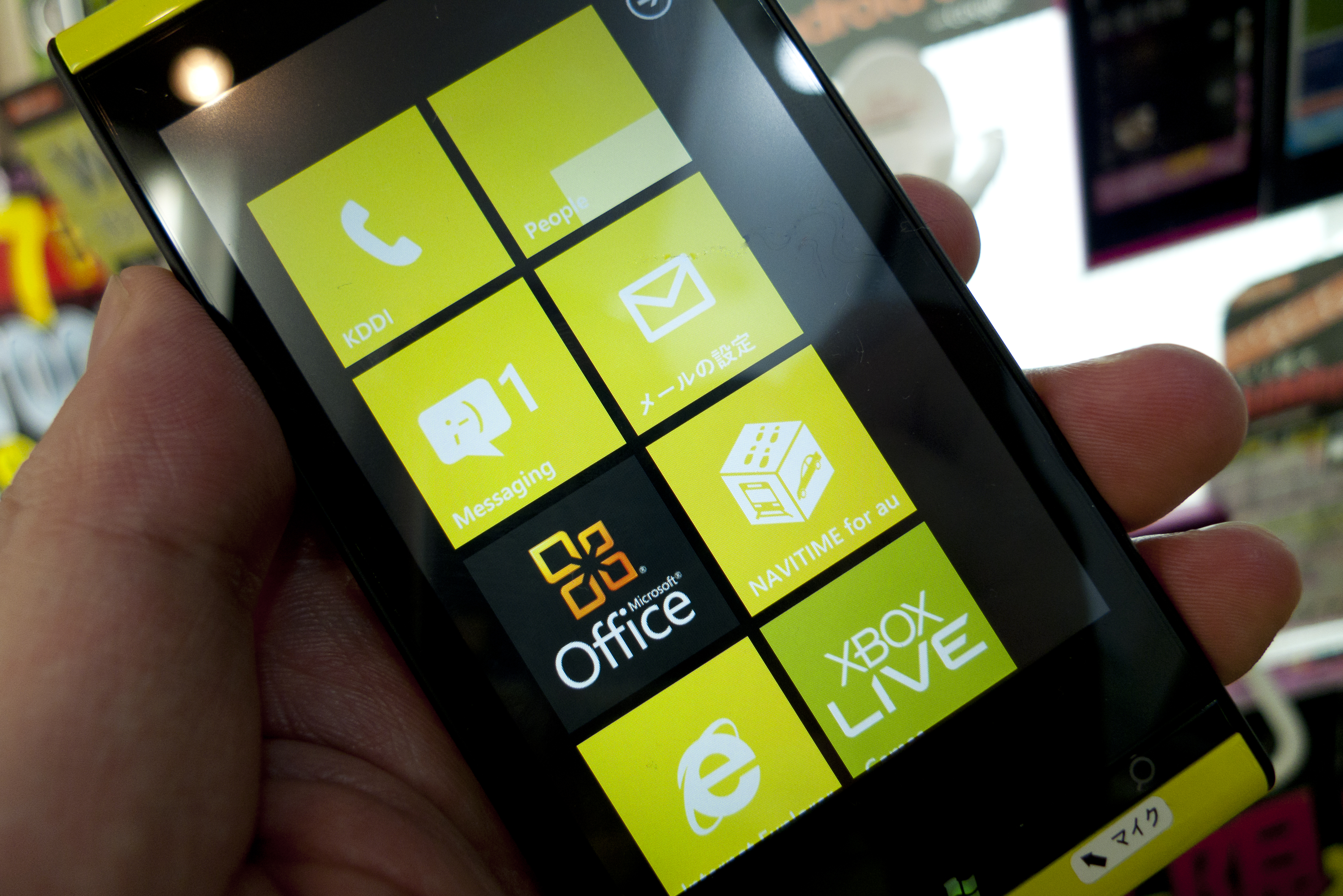 An image of the Fujitsu Toshiba IS12T